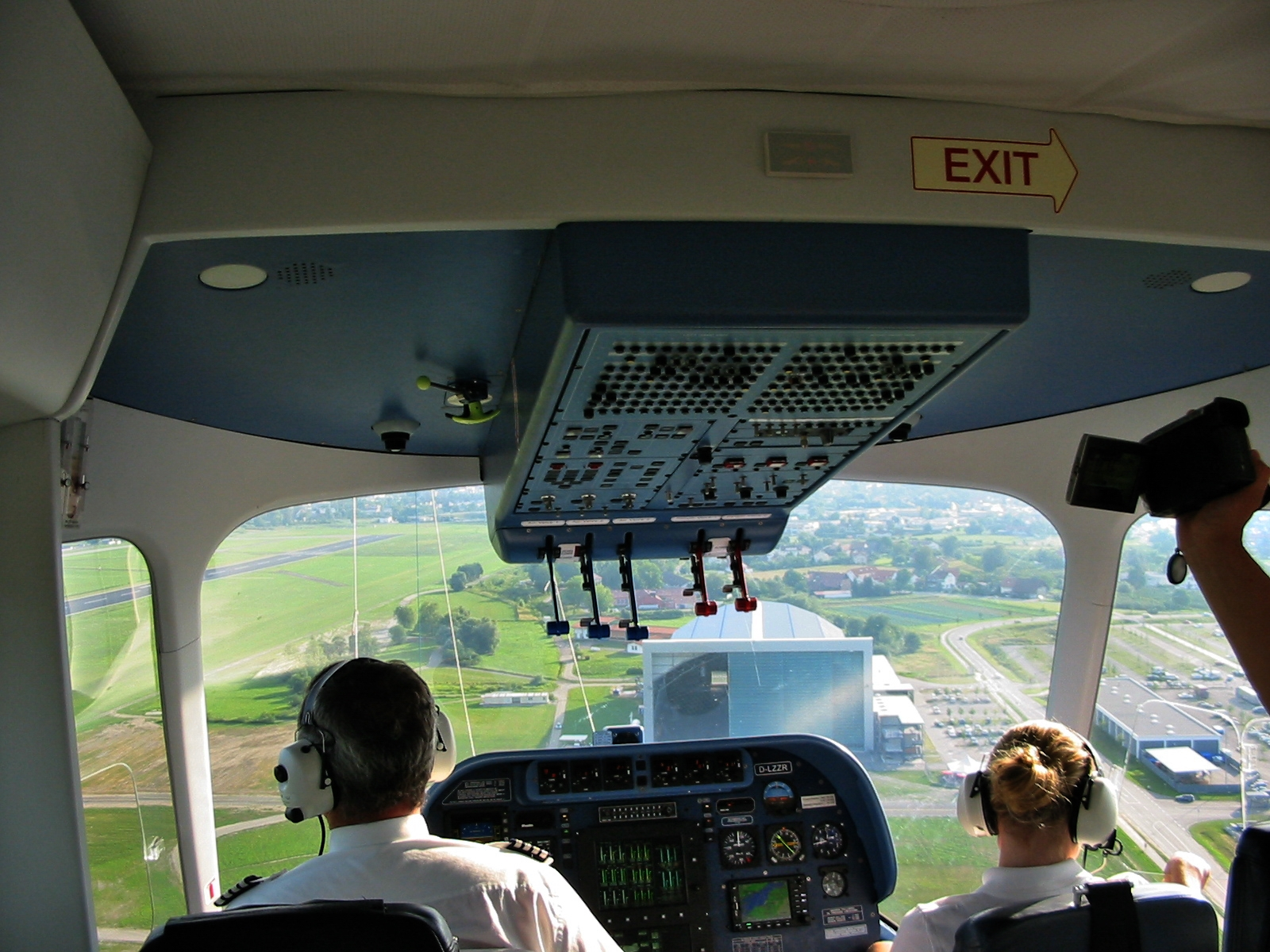 Germany, Baden-Württemberg, impressions of a flight with airship D-LZZR